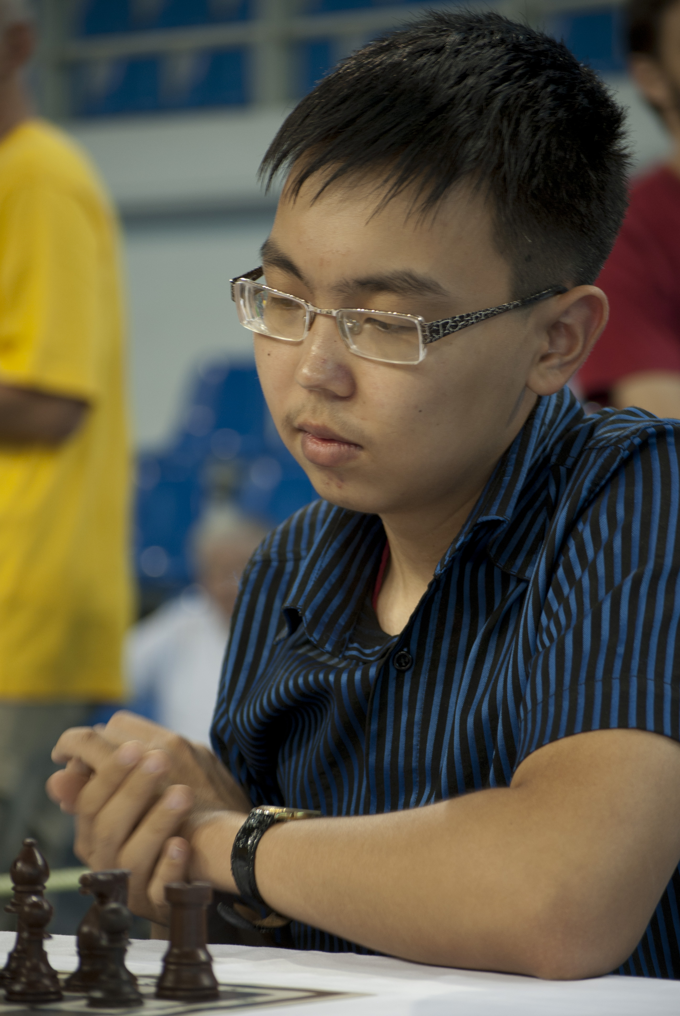 GM Sanan Sjugirov (Russia).